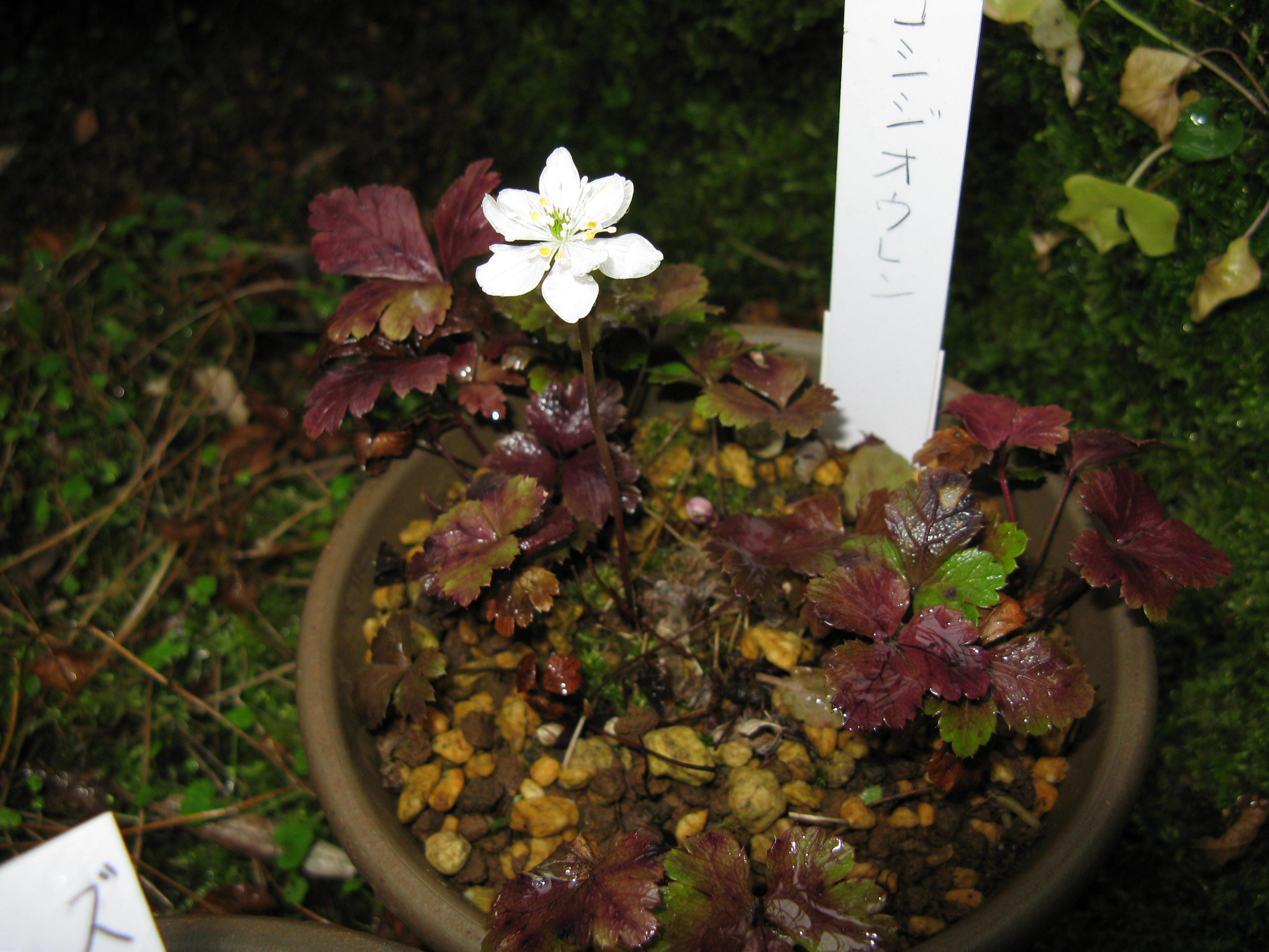 Coptis trifoliolata